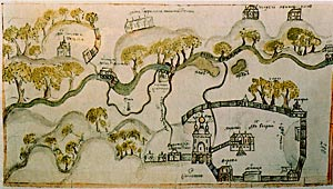 Чертеж земель по реке Сходне у села Куркино, 1692 Drawing of land along the river Skhodnya near the village Kurkino